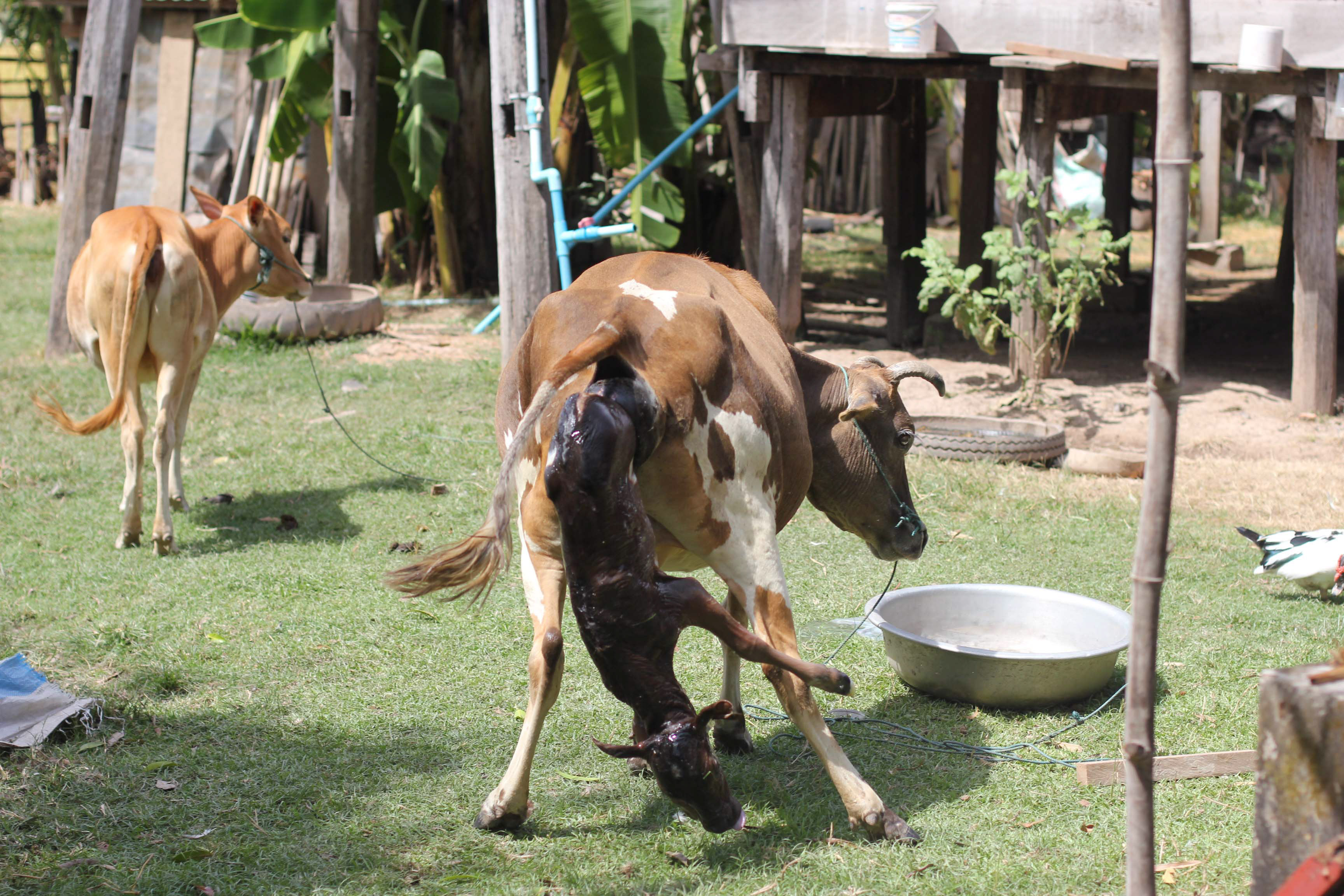 Cow giving birth to a calf, in a garden in Laos. The body of the calf is nearly entirely extracted, only the two back legs are still inside.The last step will be done with the gravity force, the weight of the body of the young animal helping in the operation. Finally the baby is going to fall down from the vulva to the ground, without injury.